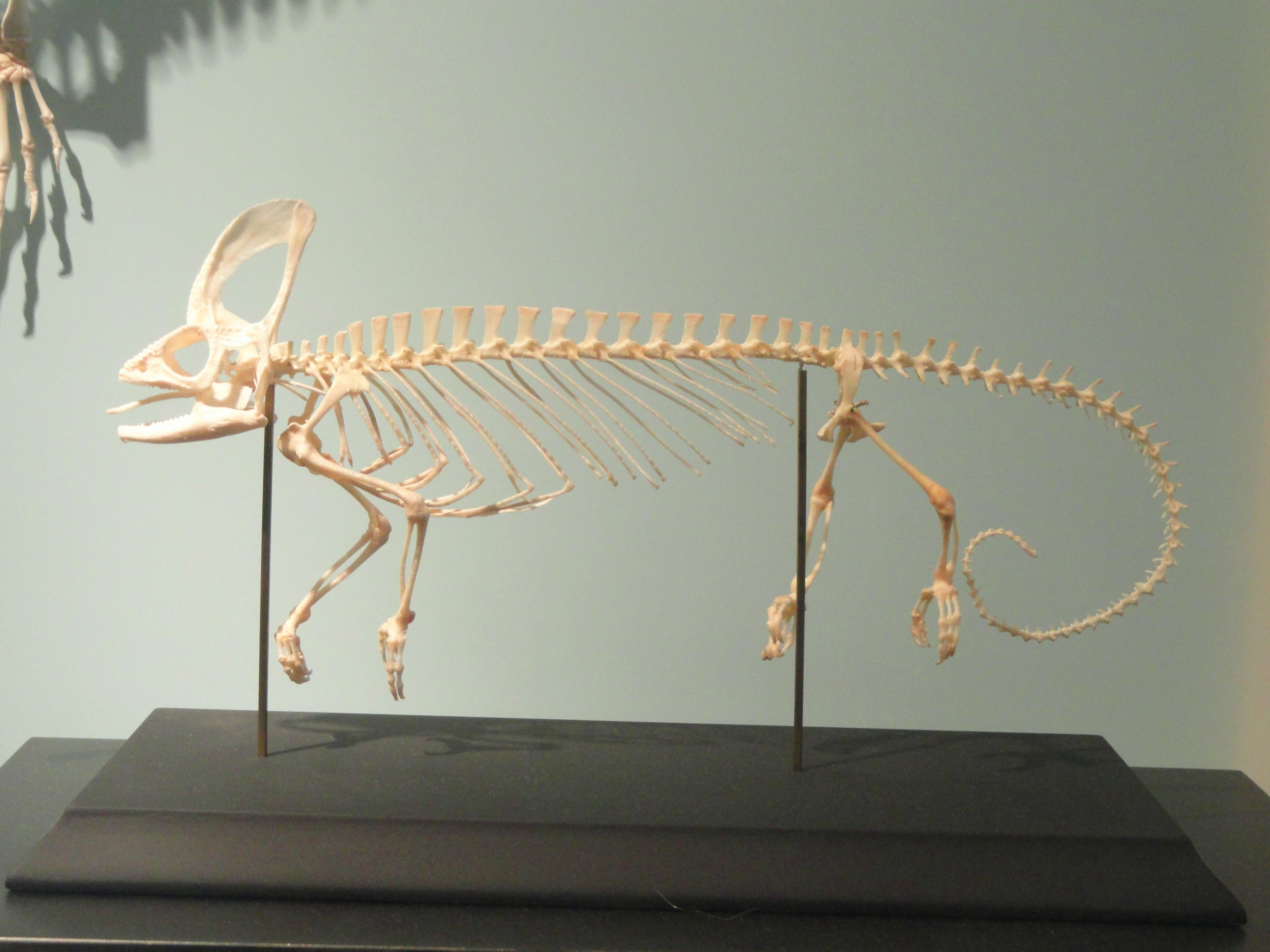 Exhibit in the fossil collection of the American Museum of Natural History, Manhattan, New York City, New York, USA.